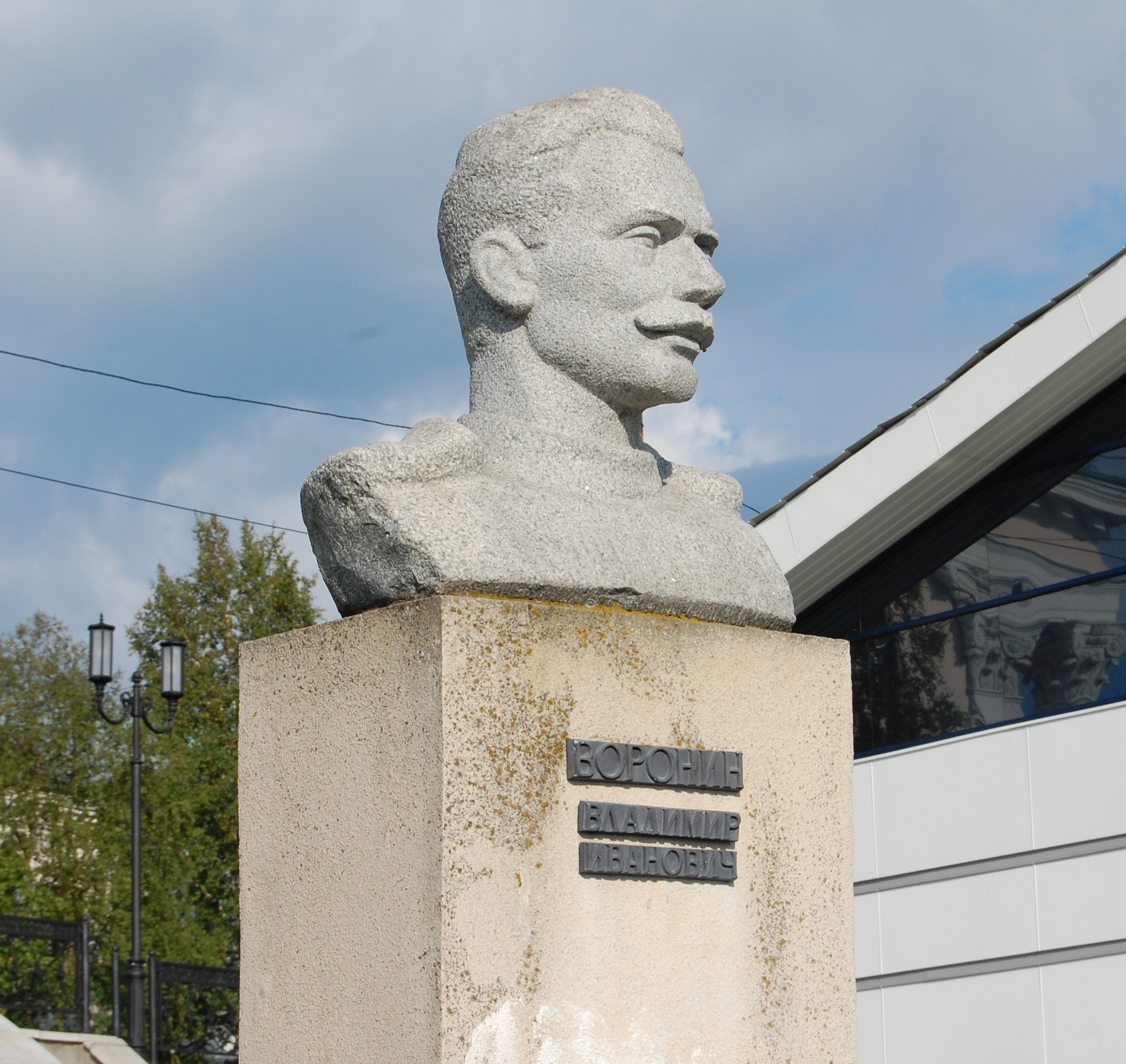 Voronin V.I. Bust in Arkhangelsk